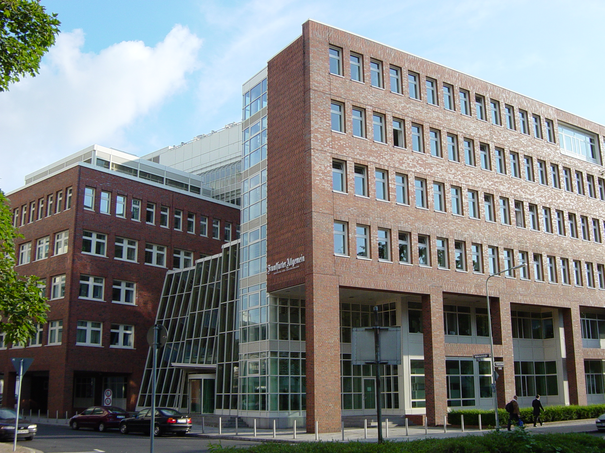 Frankfurter Allgemeine Zeitung, editorial department, Hellerhofstr. 9, Frankfurt, Germany, Position plan: bulding Nr.2. Photographed from Frankenallee direction southwest